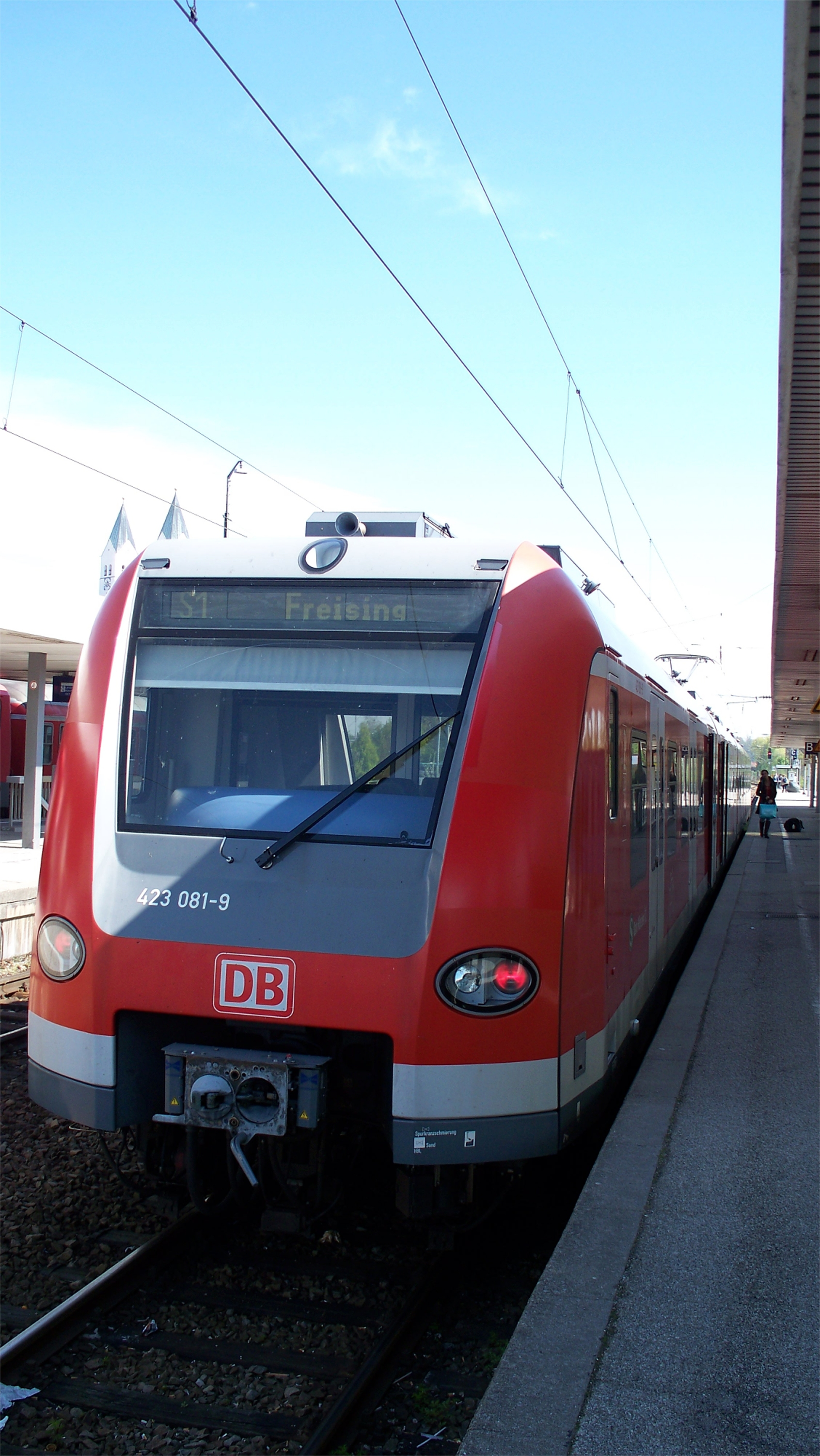 S-Bahn Munich - Line S1 in the Freising train station.